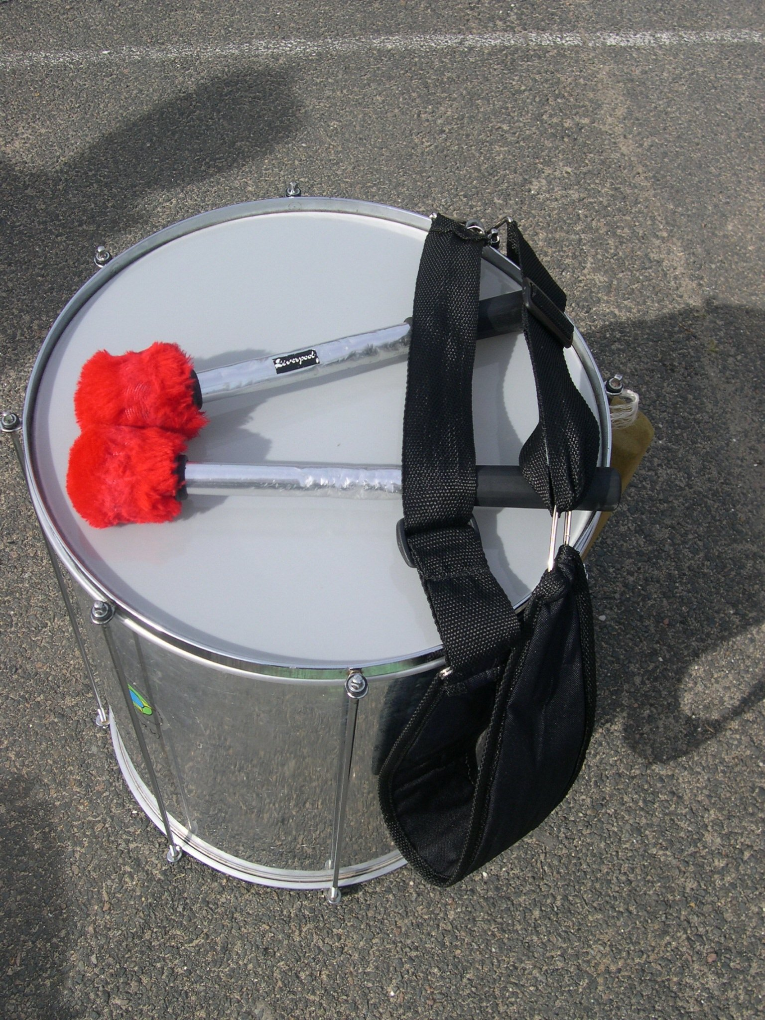 Surdo with its strap and a pair of beaters.